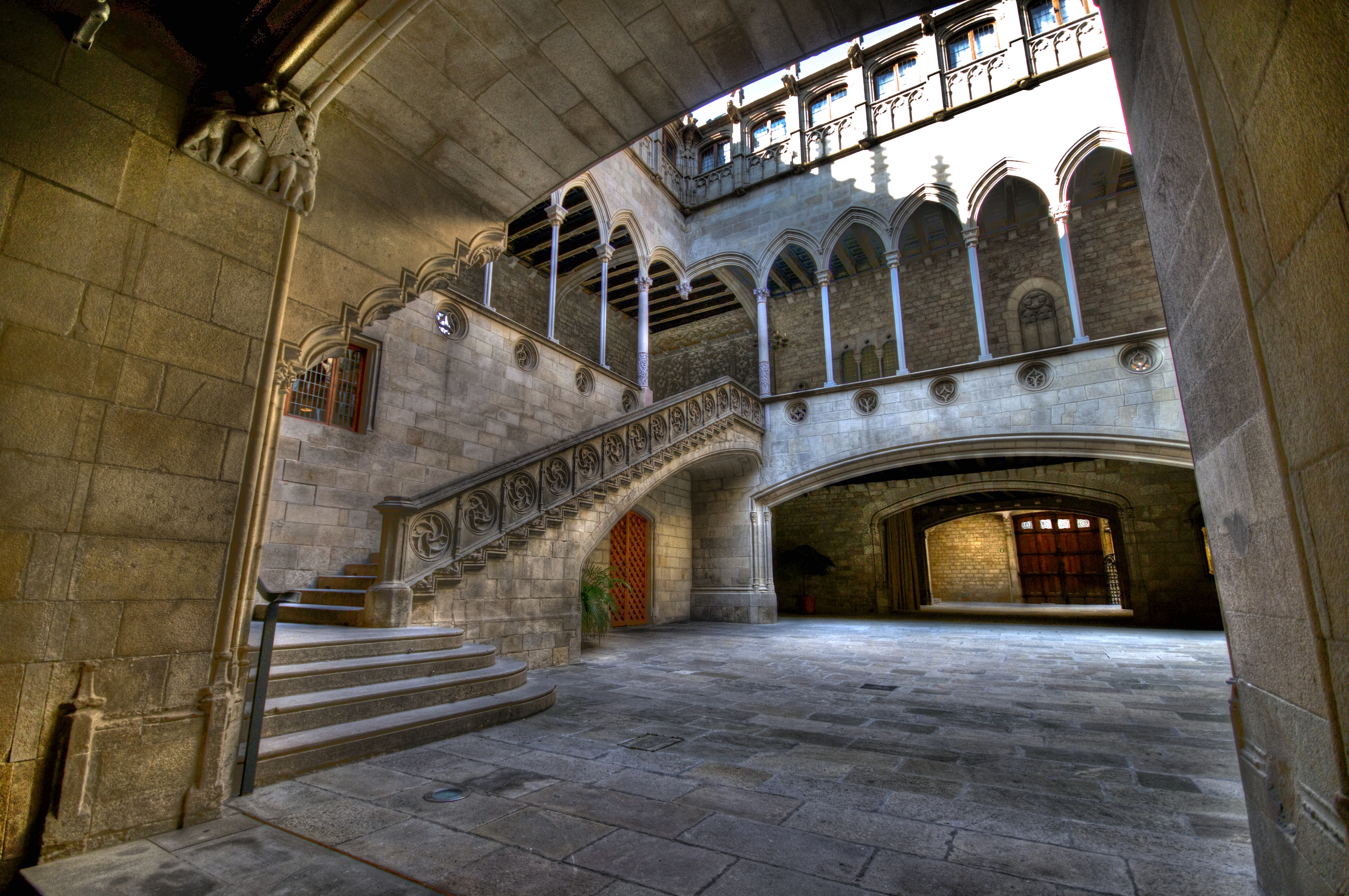 The Palau de la Generalitat houses the offices of the Presidency of the Generalitat de Catalunya